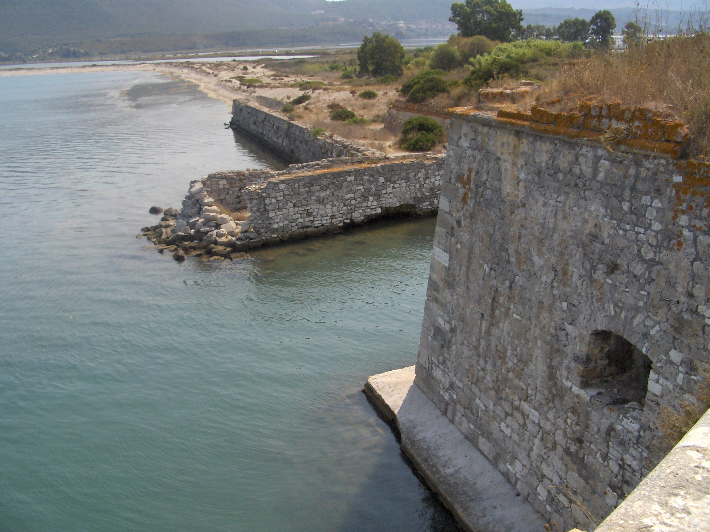 The fort of Santa Maura (Agia Maura) built by the Franks, during the 13th century, at Leykada.